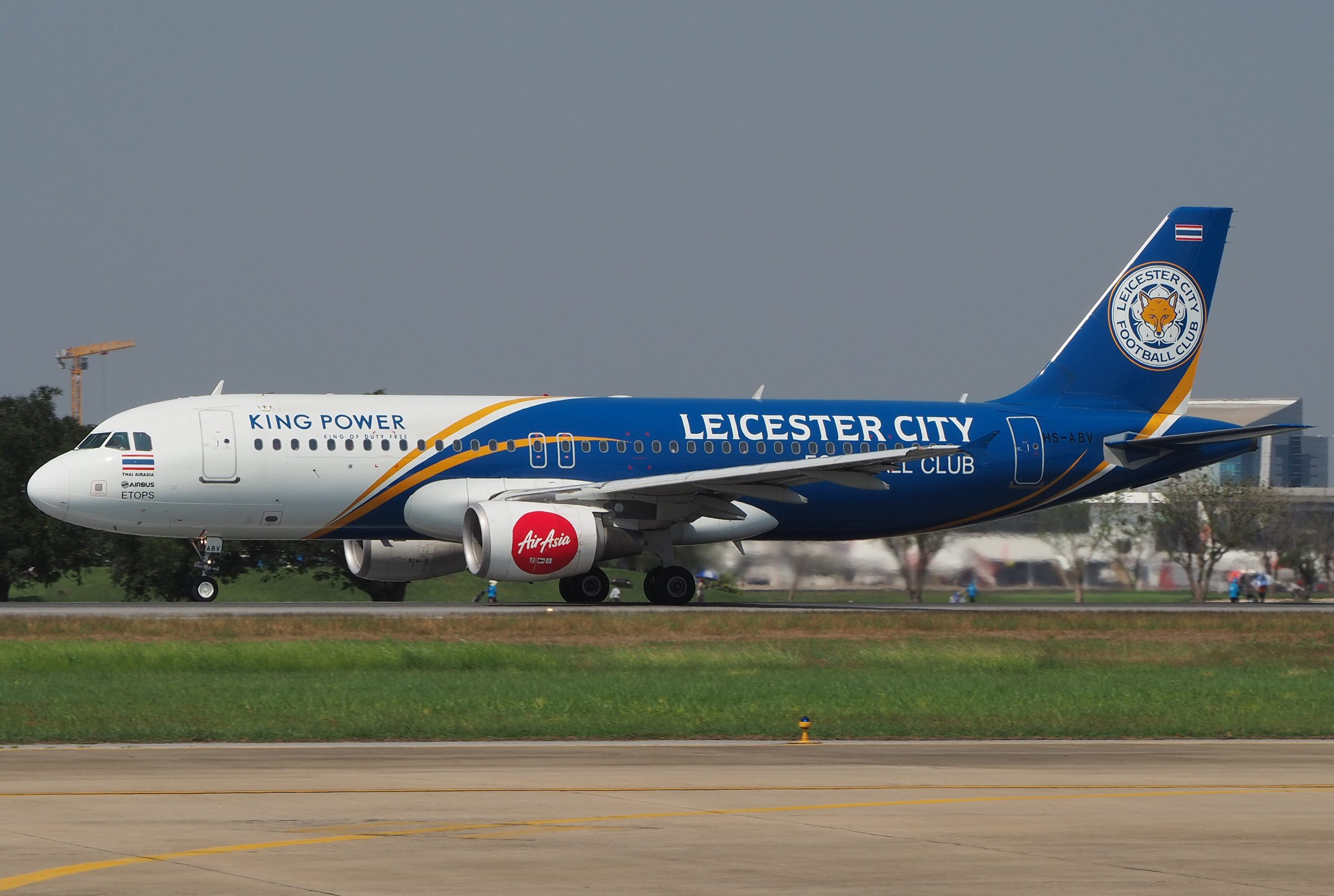 olympus